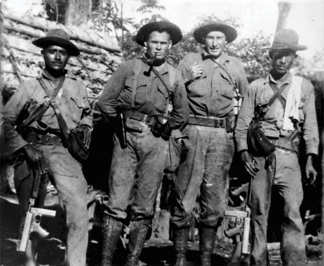 First Lieutenant Lewis "Chesty" Puller (center left) and Sergeant William "Ironman" Lee (center right) and two Nicaraguan soldiers in 1931. Photo taken during the United States Marine Corps operations in Nicaragua from 1912 to 1933.